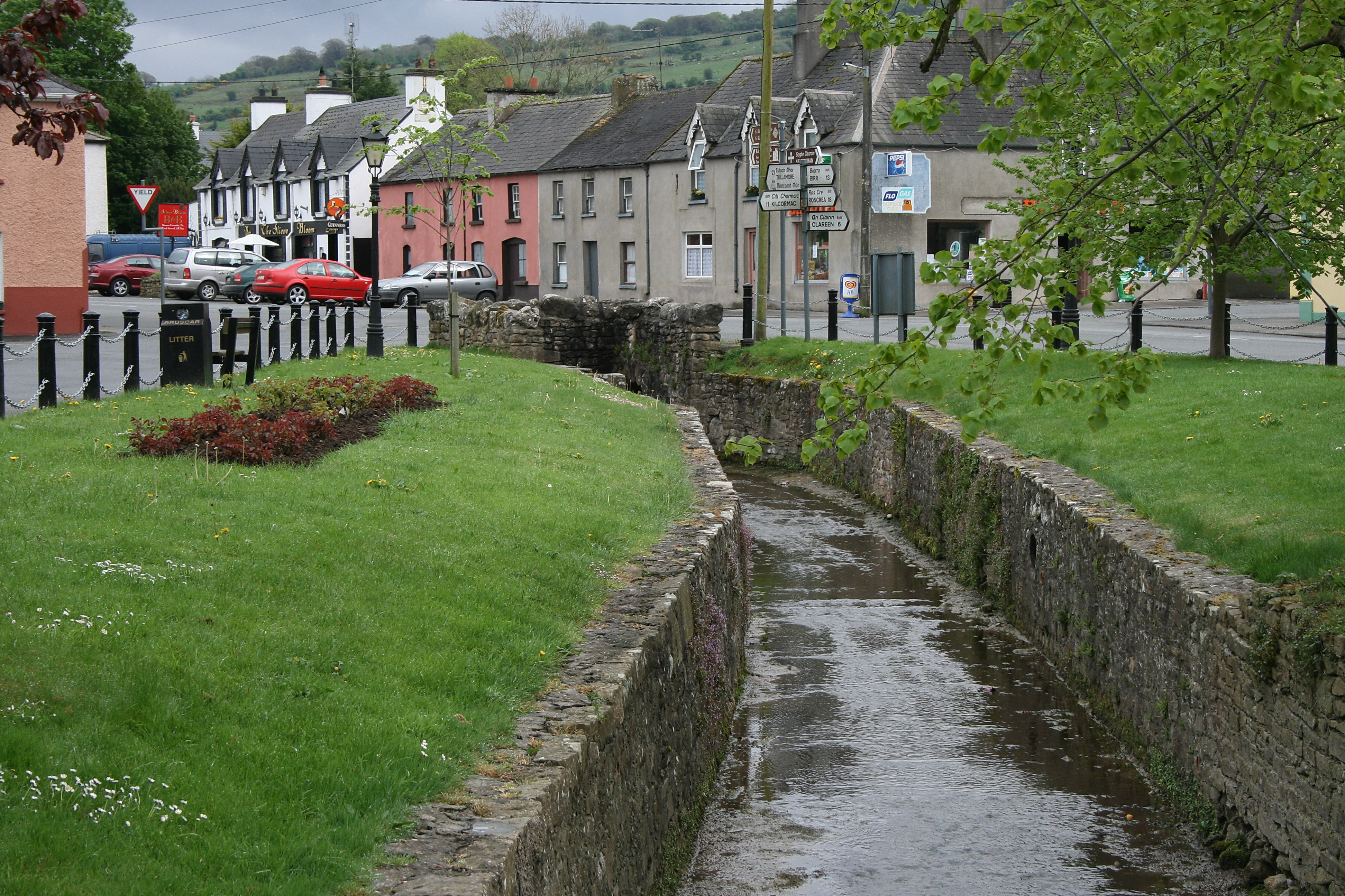 Kinnitty, County Offaly